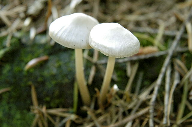 Inocybe geophylla from Commanster, Belgium. The determination of the species shown in this picture has been verified.